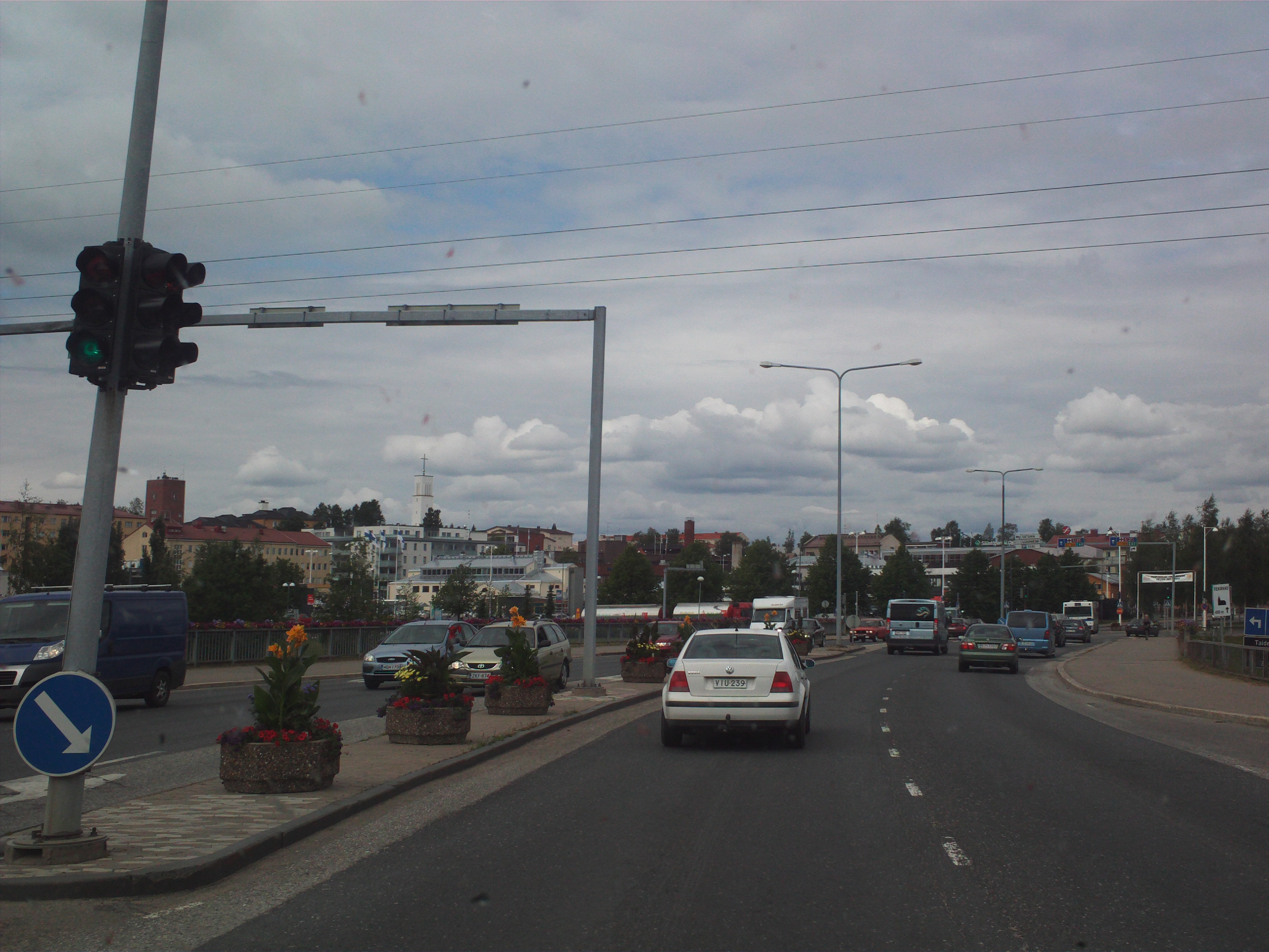 Houses of Iisalmi city center as seen from south